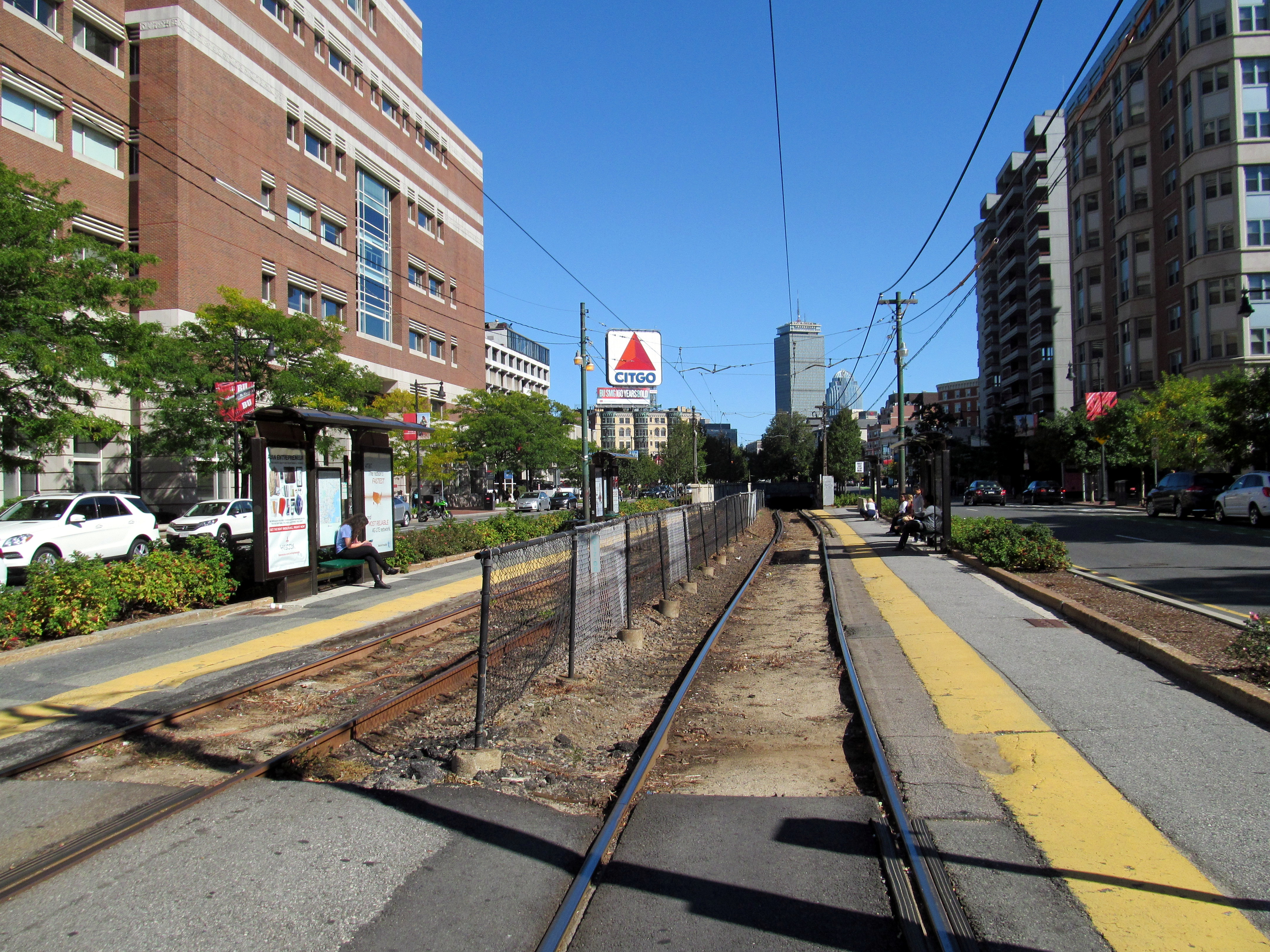 Blandford Street station in September 2013, facing towards Kenmore Square